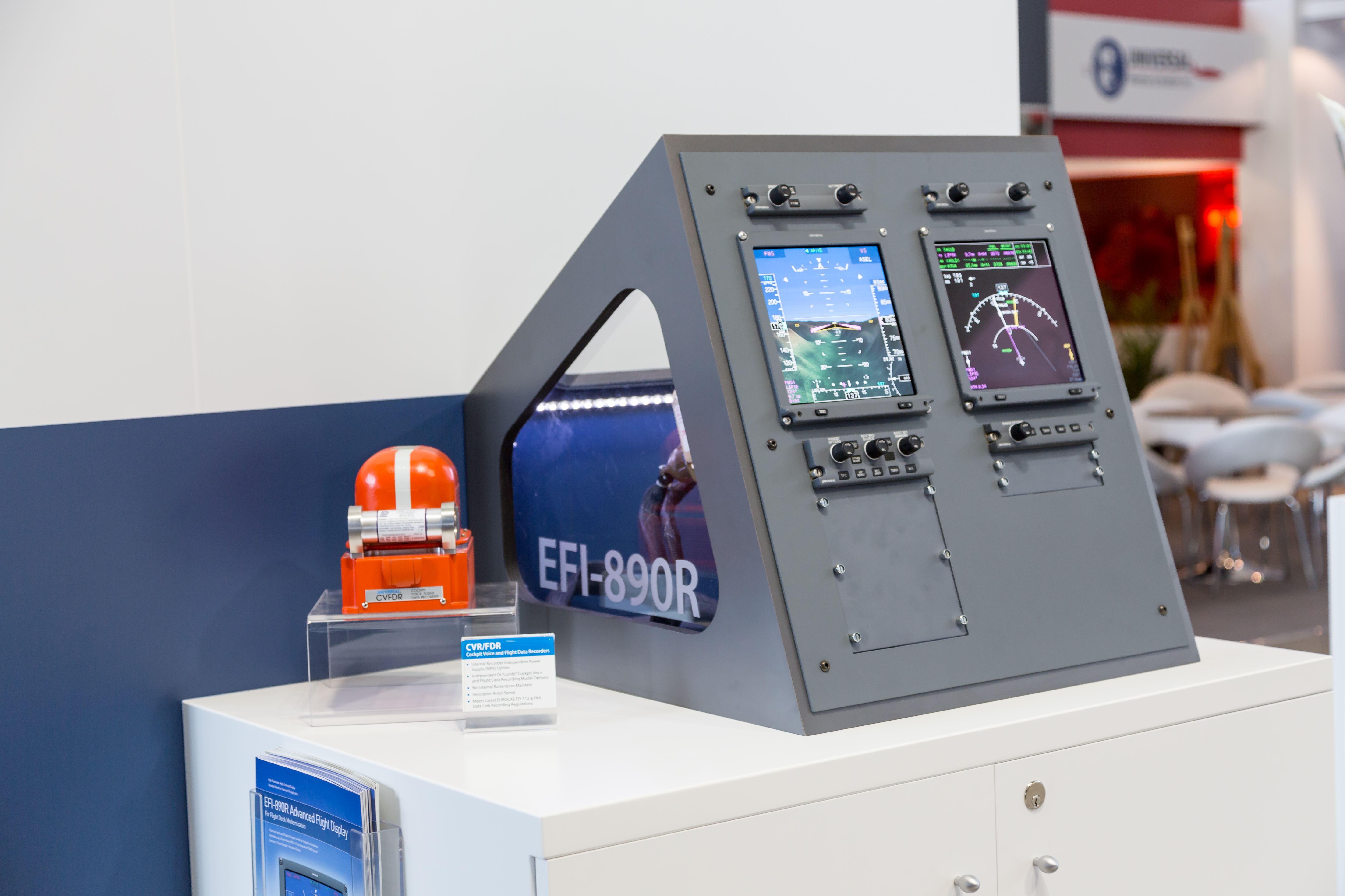 EBACE 2018 exhibits, Palexpo